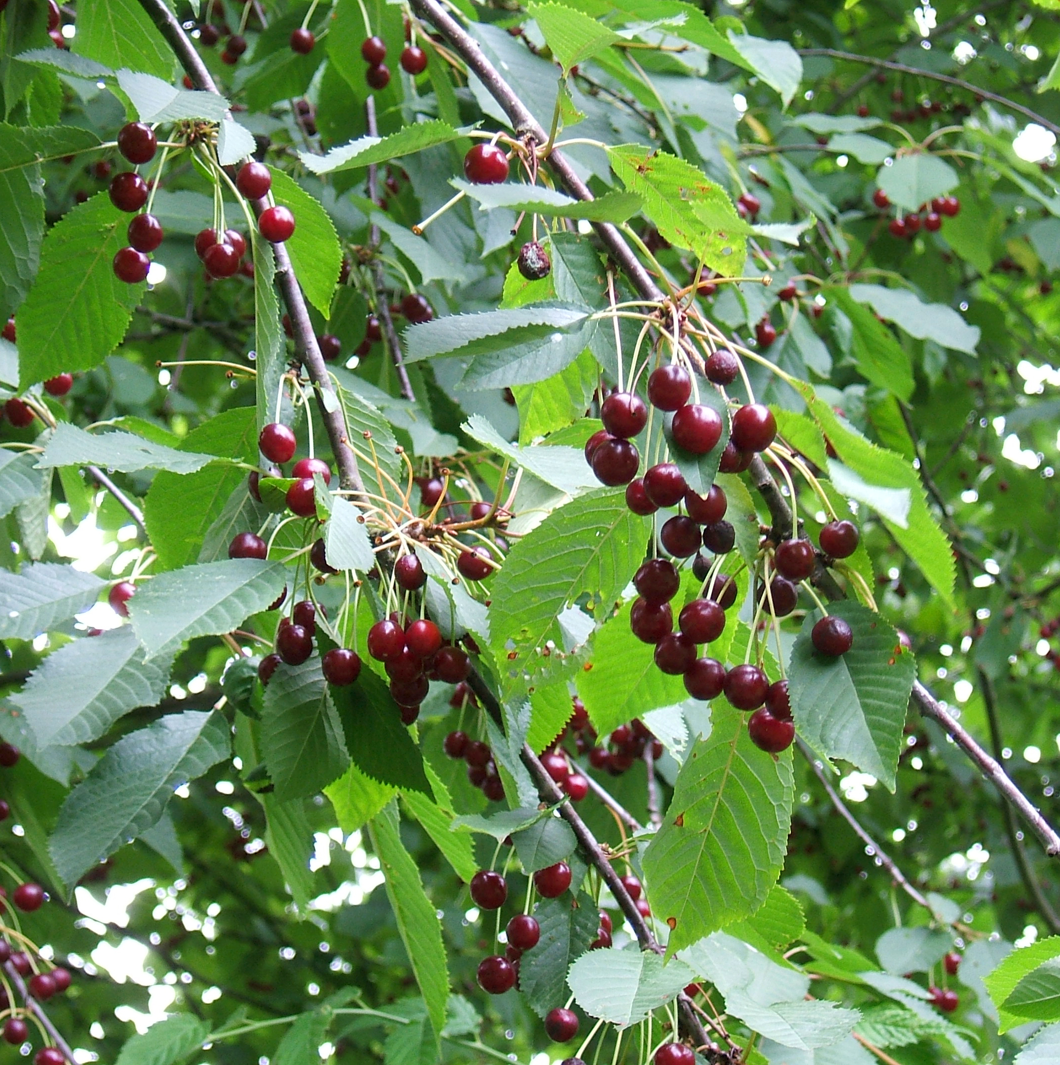 Wild Cherry Prunus avium fruit; Northumberland, UK